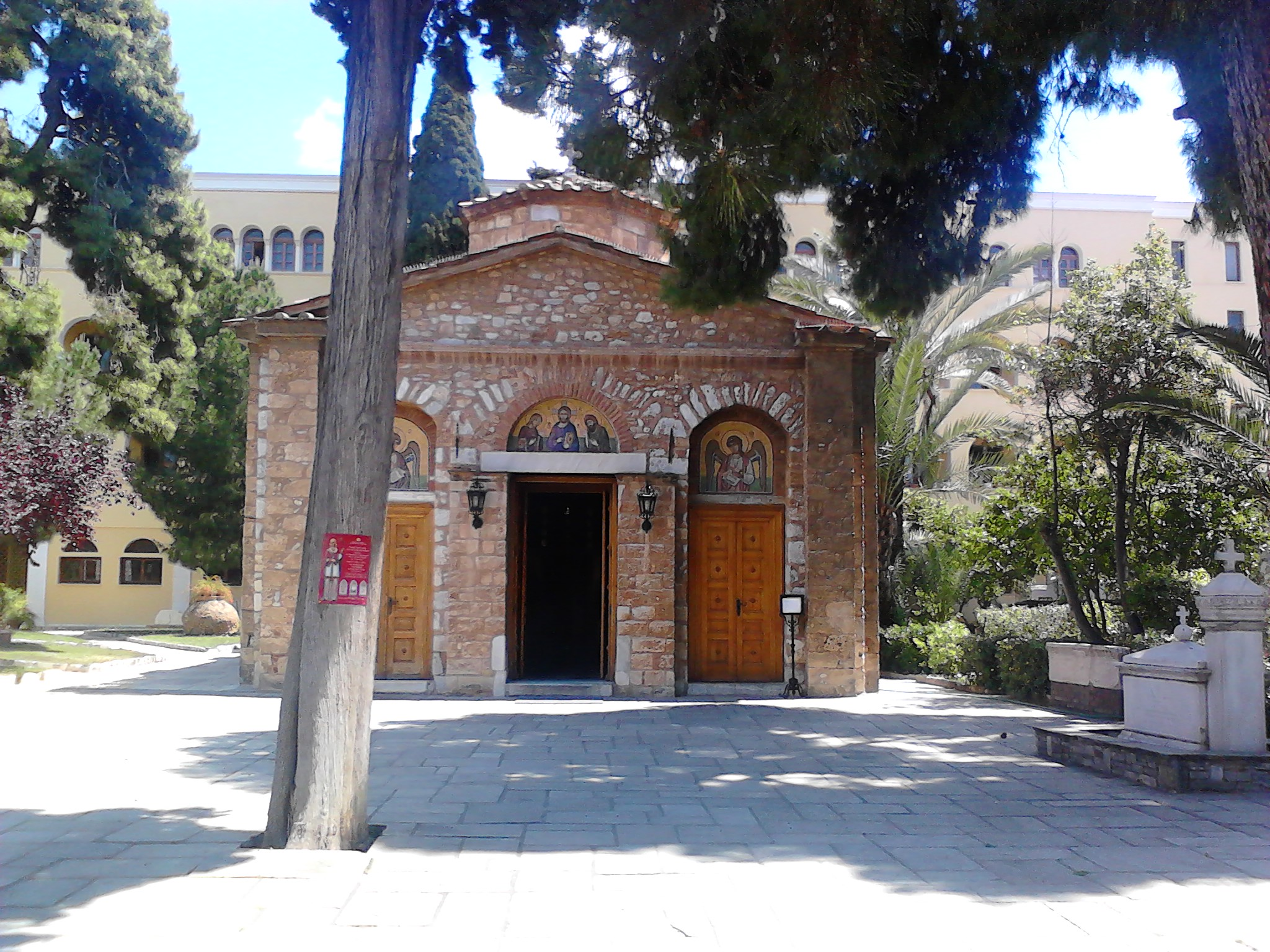 Monastery Asomaton, Athens